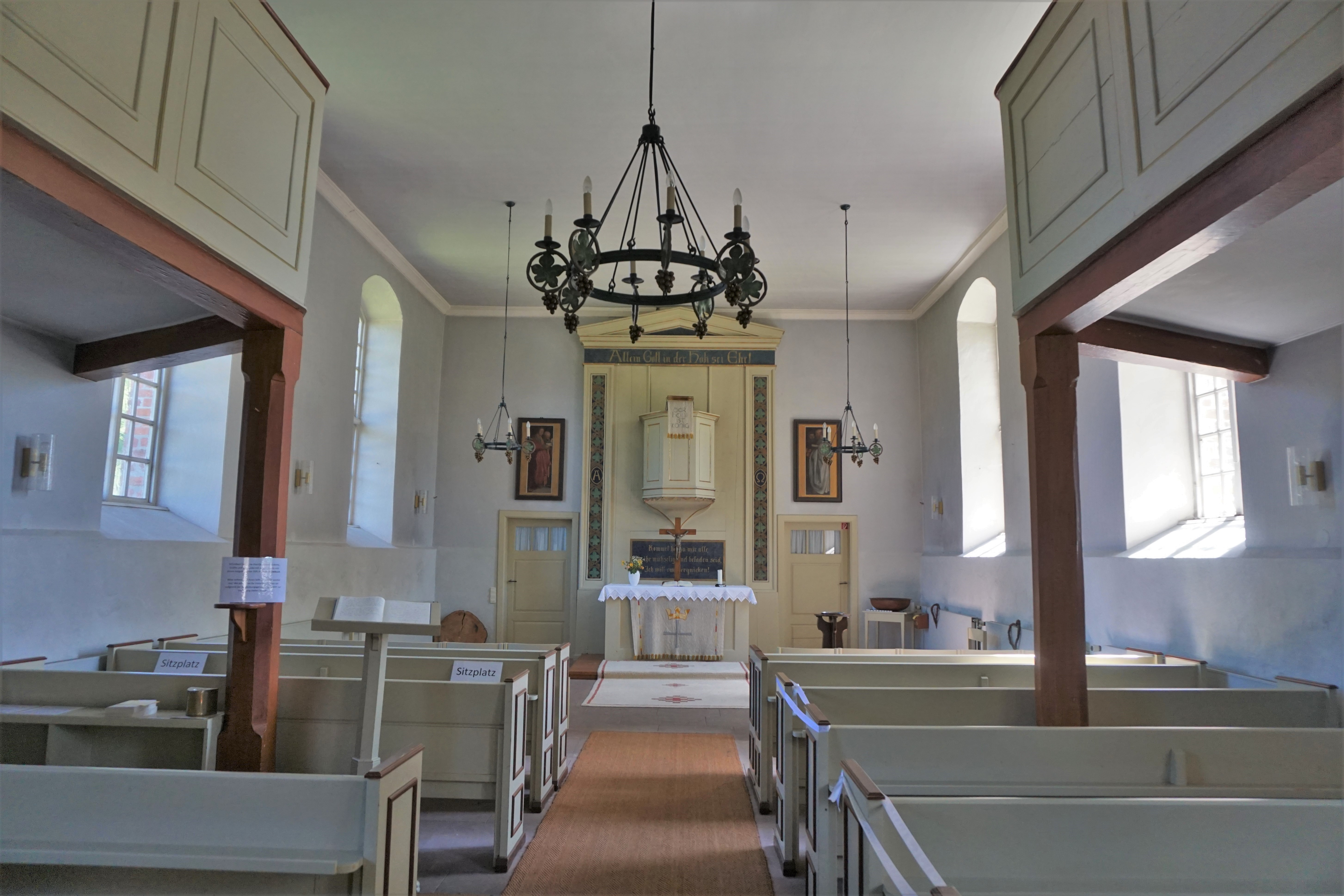 View into the nave of the Saint Vitus Church in Reinstorf, district Lüneburg.